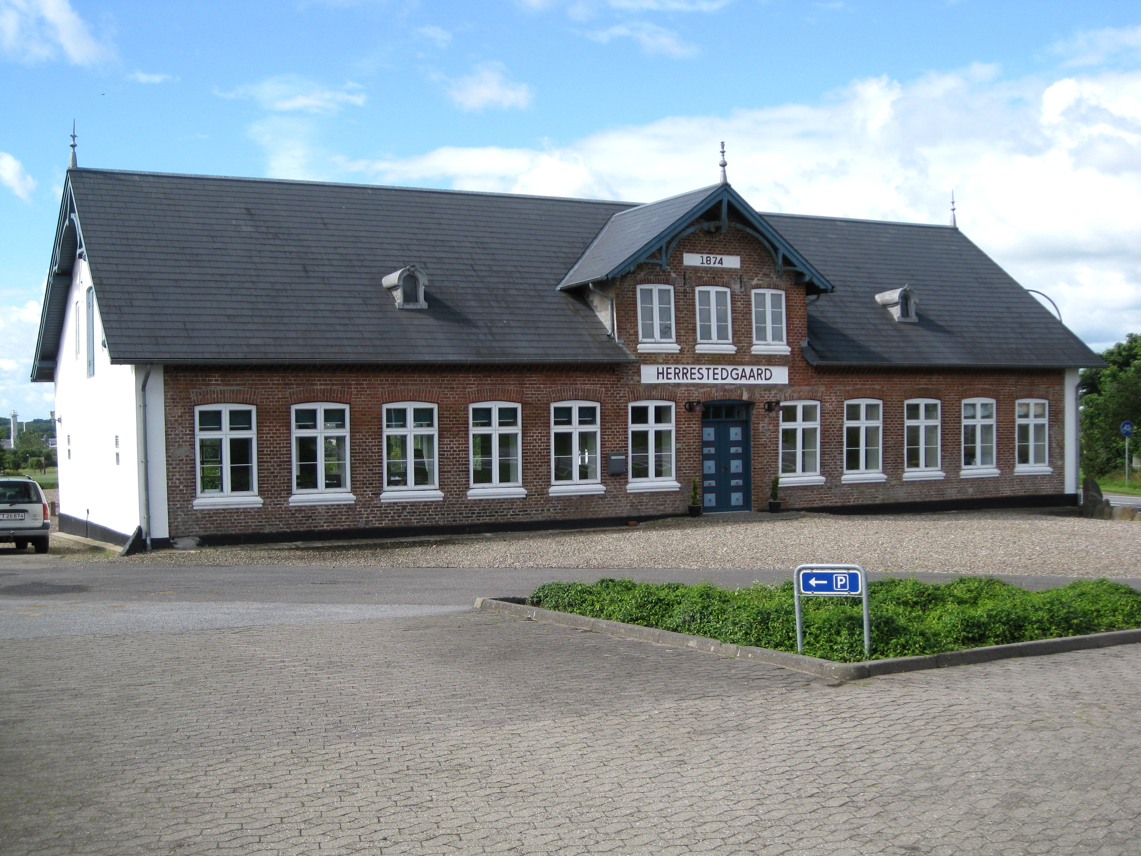 The small estate "Herrestedgaard" in the small town "Toftlund" (originally "Herrested"). The town is located in Southern Jutland (in south Denmark).